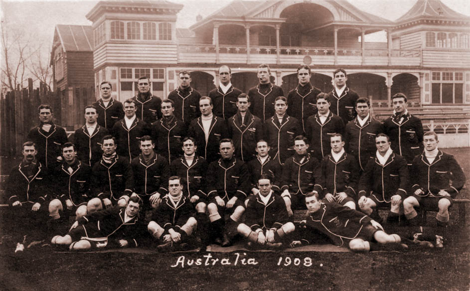 Team photo of the Australian Rugby Union team to tour England in 1908